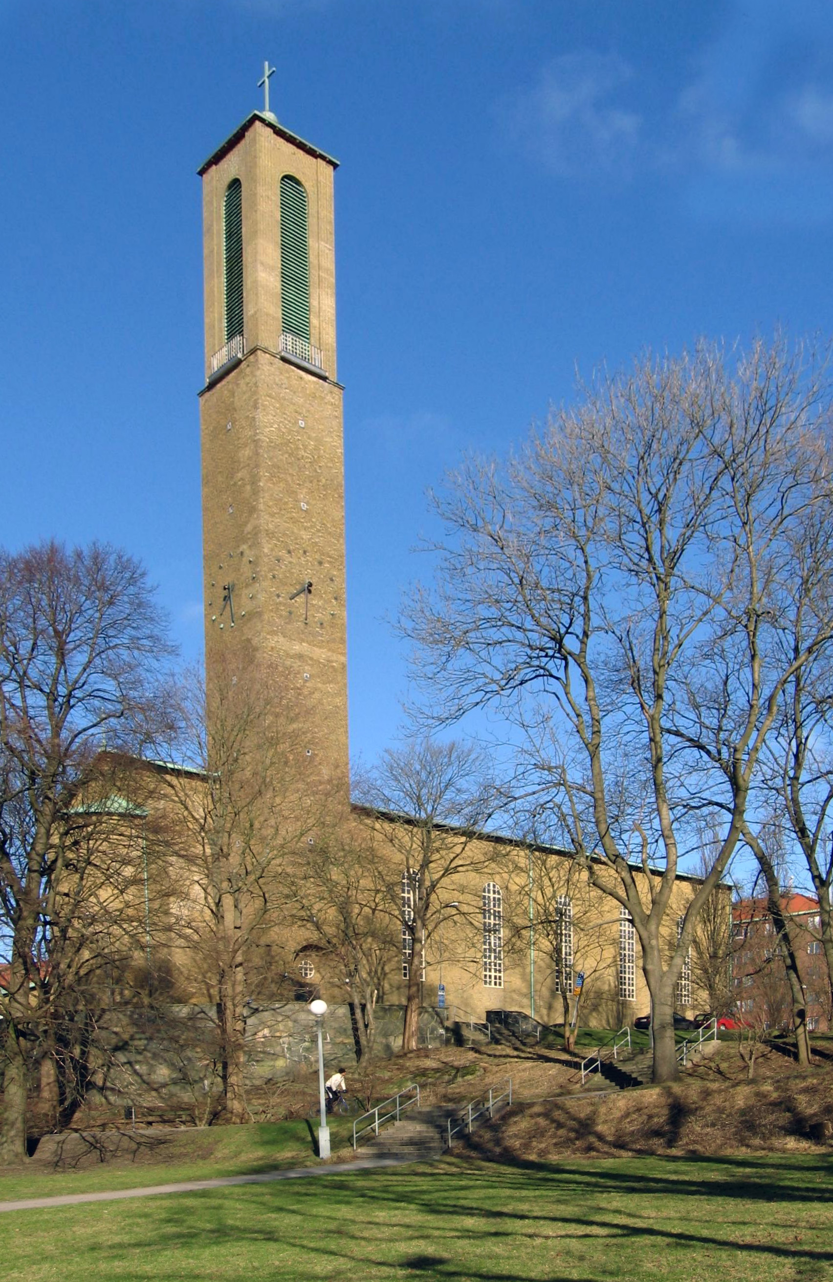 building, church, brick, Gothenburg